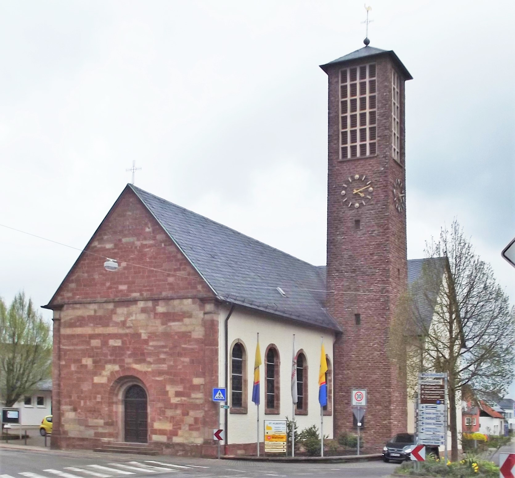 Exterior of the roman catholic church in Niederlosheim, Saarland